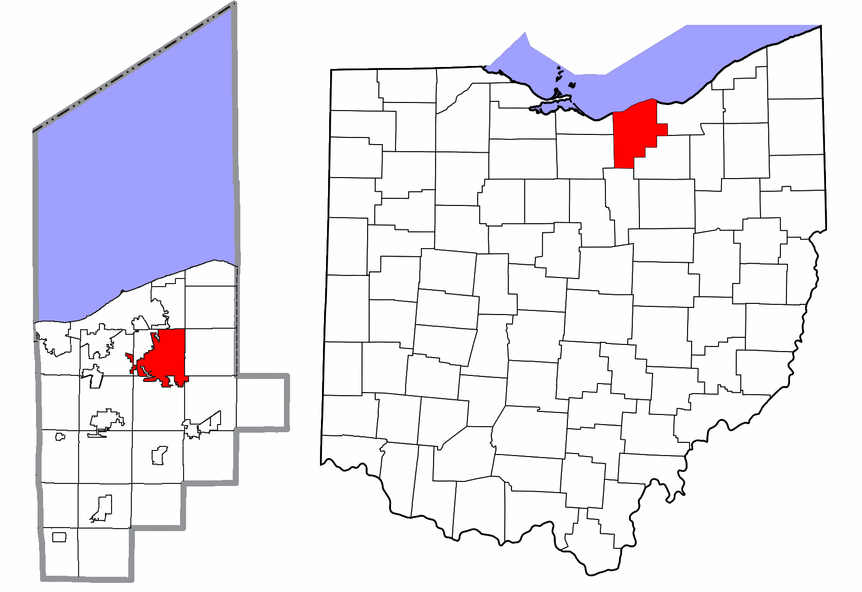 Map highlighting City of Elyria, Lorain County, Ohio, United States.